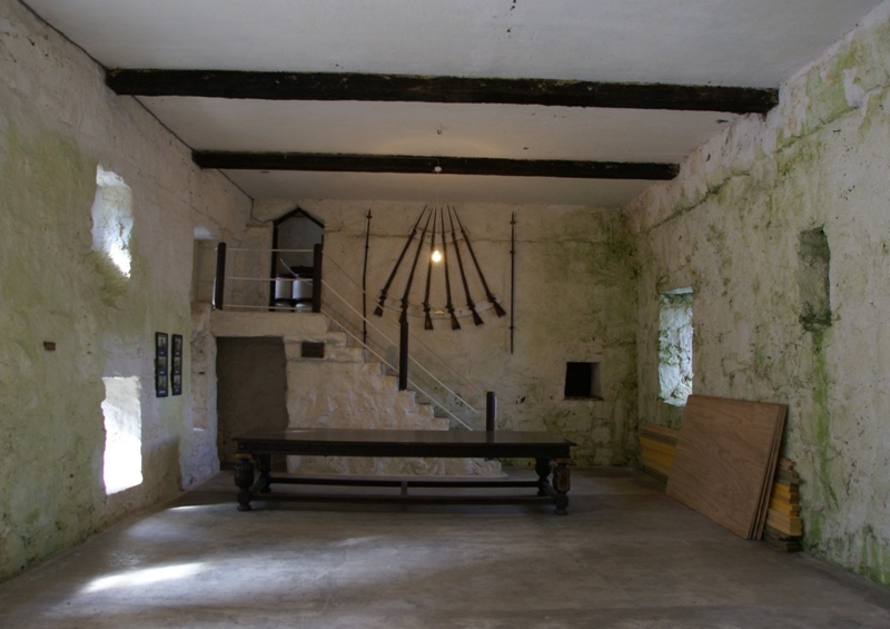 Kisimul Castle, Barra, Scotland - hall interior